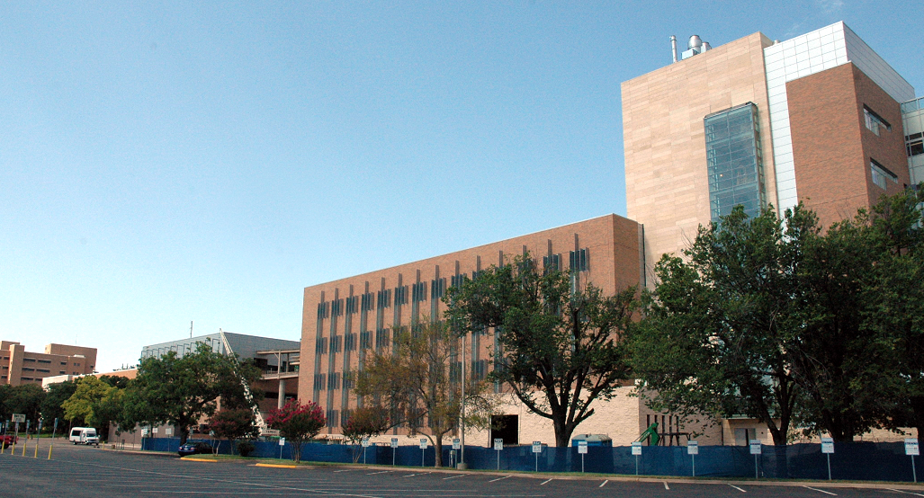 A view of three engineering buildings on the UT Arlington campus in Arlington, Texas, United States. Appearing from right to left are the engineering research complex (under construction), engineering lab building, and Woolf Hall.